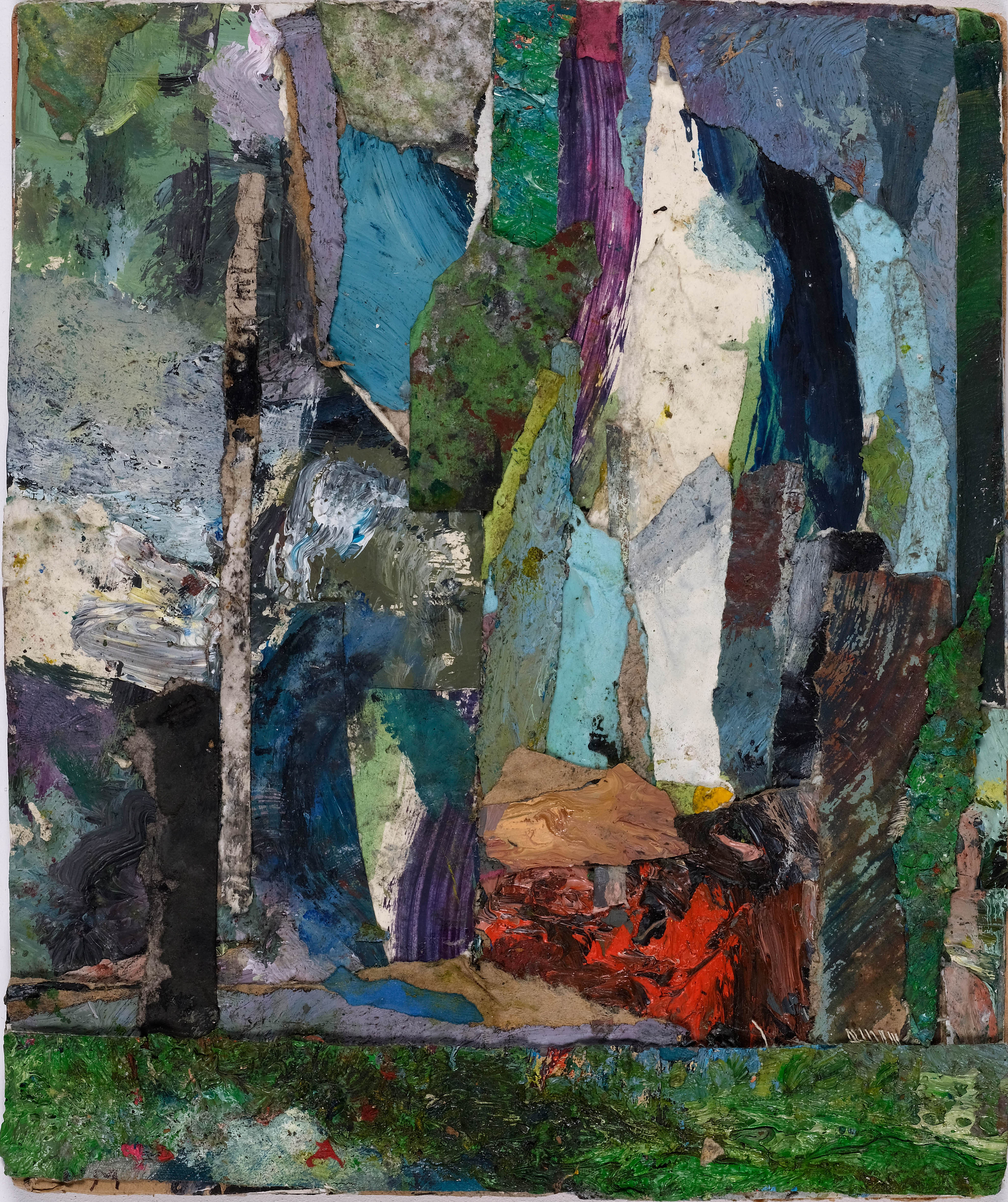 "Woods No. 21", mixed technique on wood